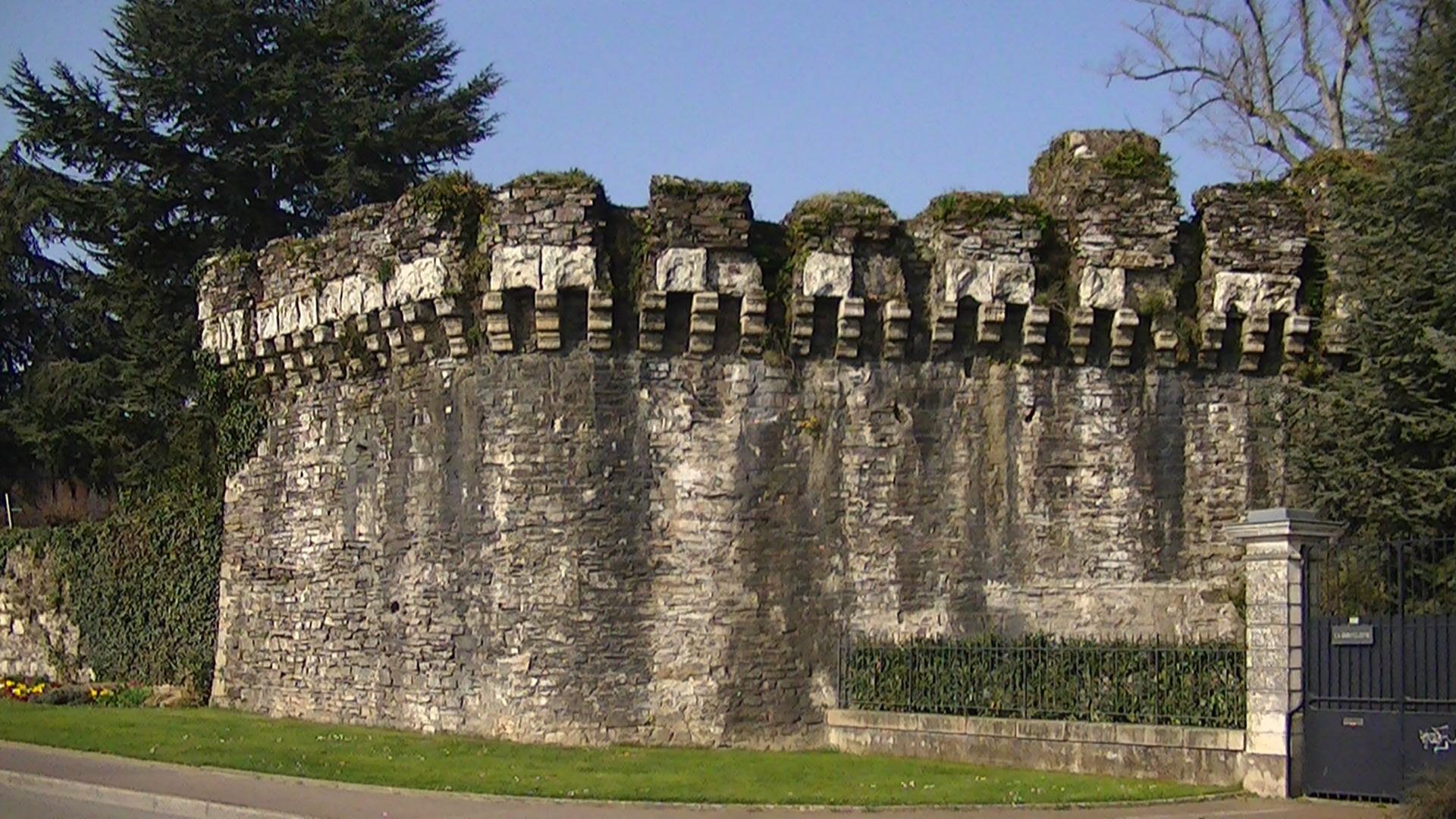 Walls of Ancenis castle